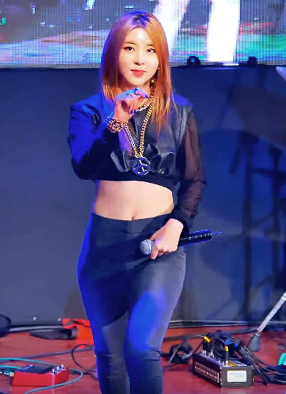 Kwon So-hyun performing Heart to Heart on May 21, 2015.